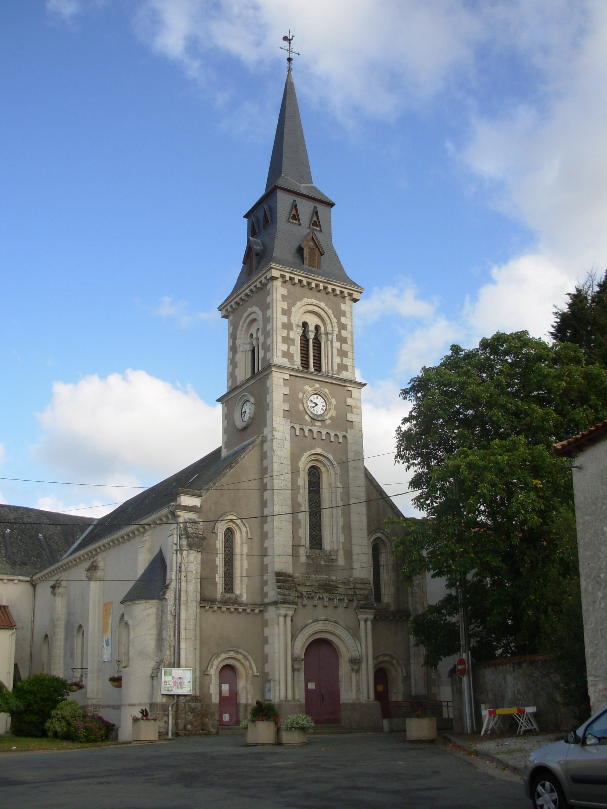 Church of Saint-Florent-des-Bois (Vendée)